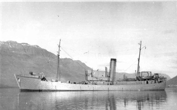 The Royal Norwegian Navy armed trawler HNoMS Honningsvåg off Iceland.